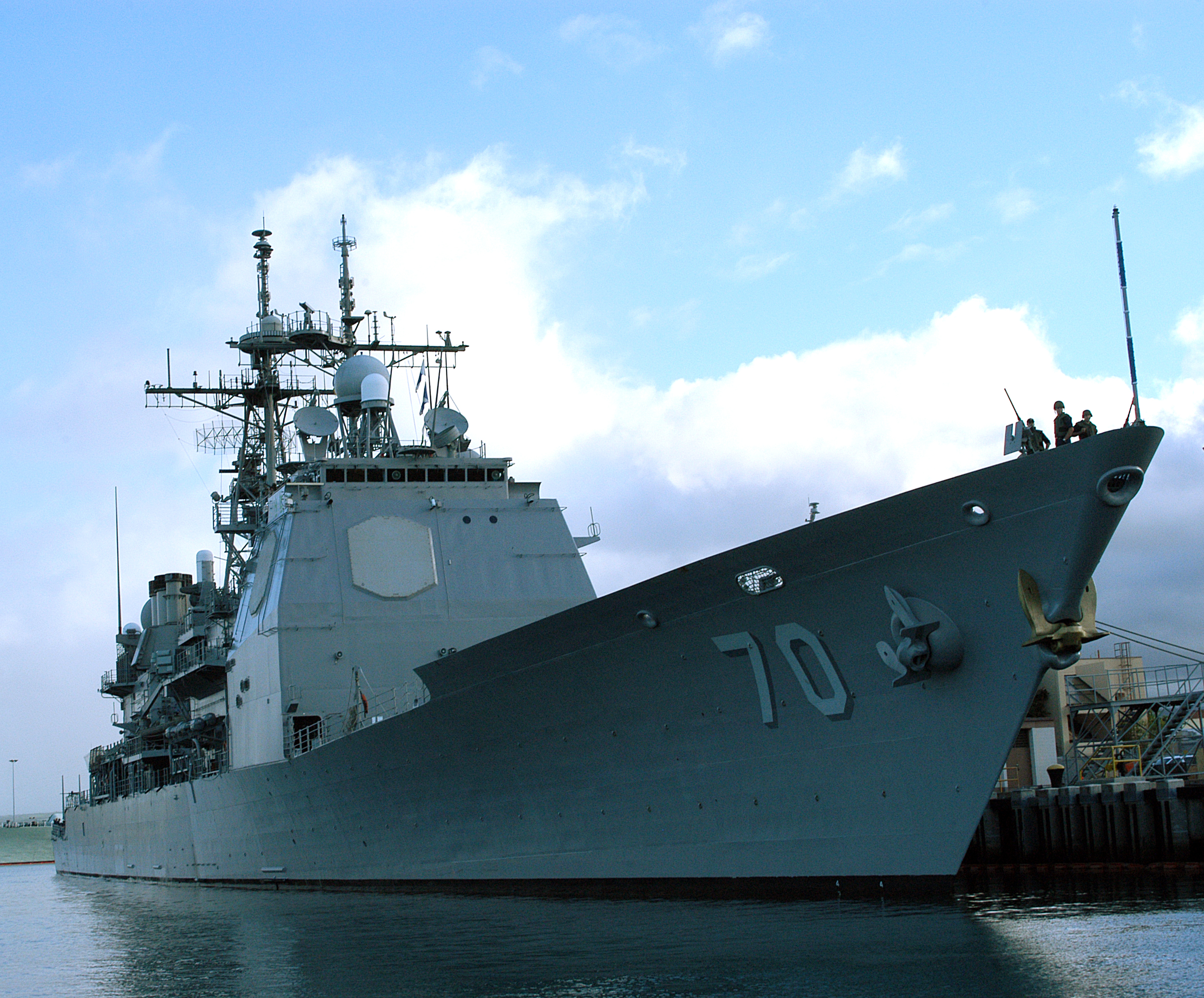 Pearl Harbor, Hawaii (July 2, 2004) – The U.S. Navy guided missile cruiser USS Lake Erie (CG 70) proudly displaying its golden bow anchor, pierside at Naval Station Pearl Harbor, Hawaii. The golden anchor symbolizes a high retention rate of shipboard personnel. The ship is participating in this year's Rim of the Pacific (RIMPAC) exercise 2004. RIMPAC is the largest international maritime exercise in the waters around the Hawaiian Islands. This year’s exercise includes seven participating nations; Australia, Canada, Chile, Japan, South Korea, United Kingdom and United States. RIMPAC is intended to enhance the tactical proficiency of participating units in a wide array of combined operations at sea, while enhancing stability in the Pacific Rim region. U.S. Navy photo by Photographer's Mate 2nd Class Bradley J. Sapp (RELEASED) For more information go to: /